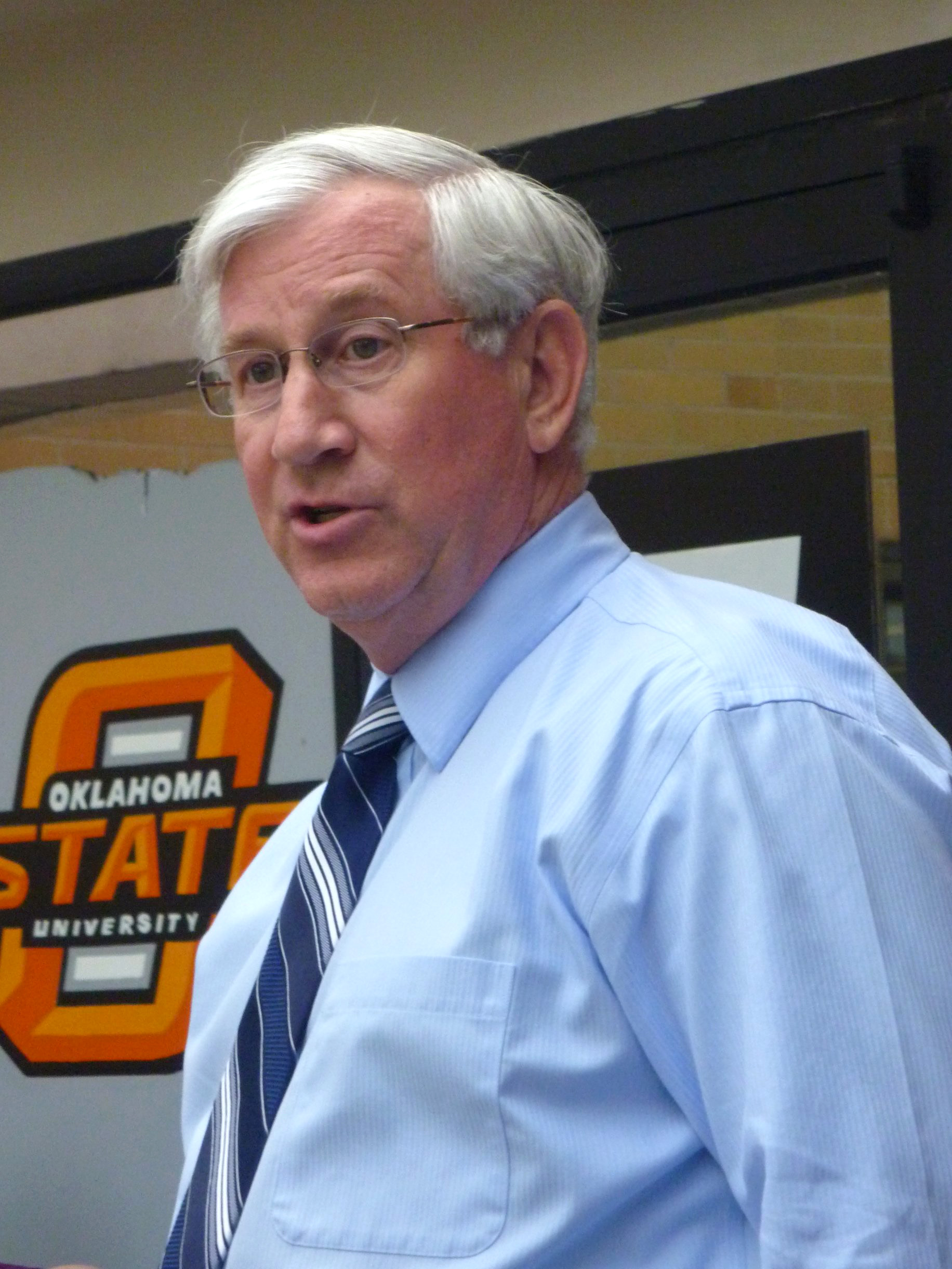 Former Attorney General Don Stenberg, taken at a meet-and-greet event at DJ's Dugout in Omaha, Neb.